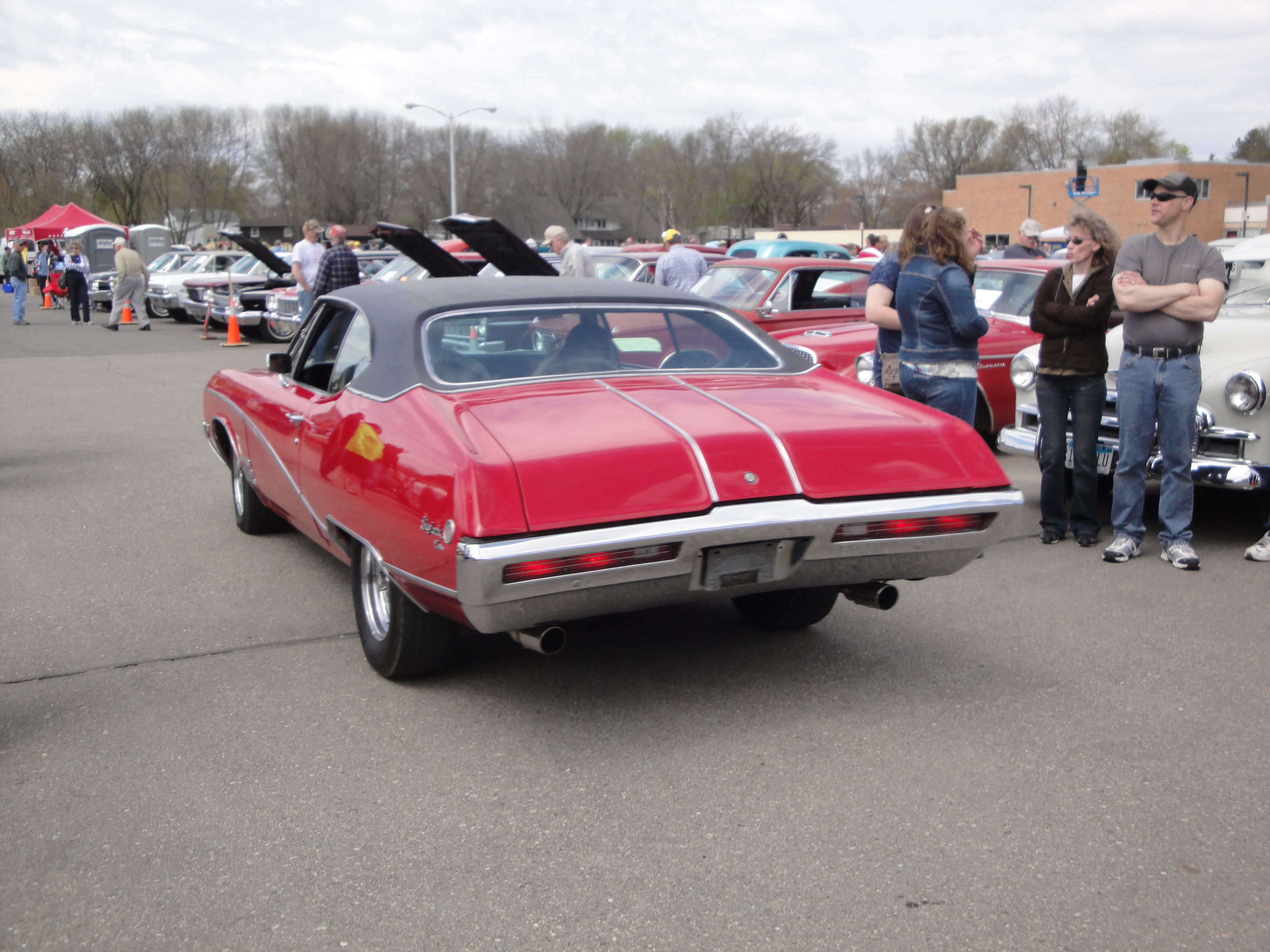 Willmar Car Show & Swap Meet 2014. After a couple of years of bad weather, the car show hit the weather jackpot this year. The only complaint is that it was so busy I did not get as many pictures as I wanted. Car Cruise Videos: Check out the club website for other events: More Car Pictures